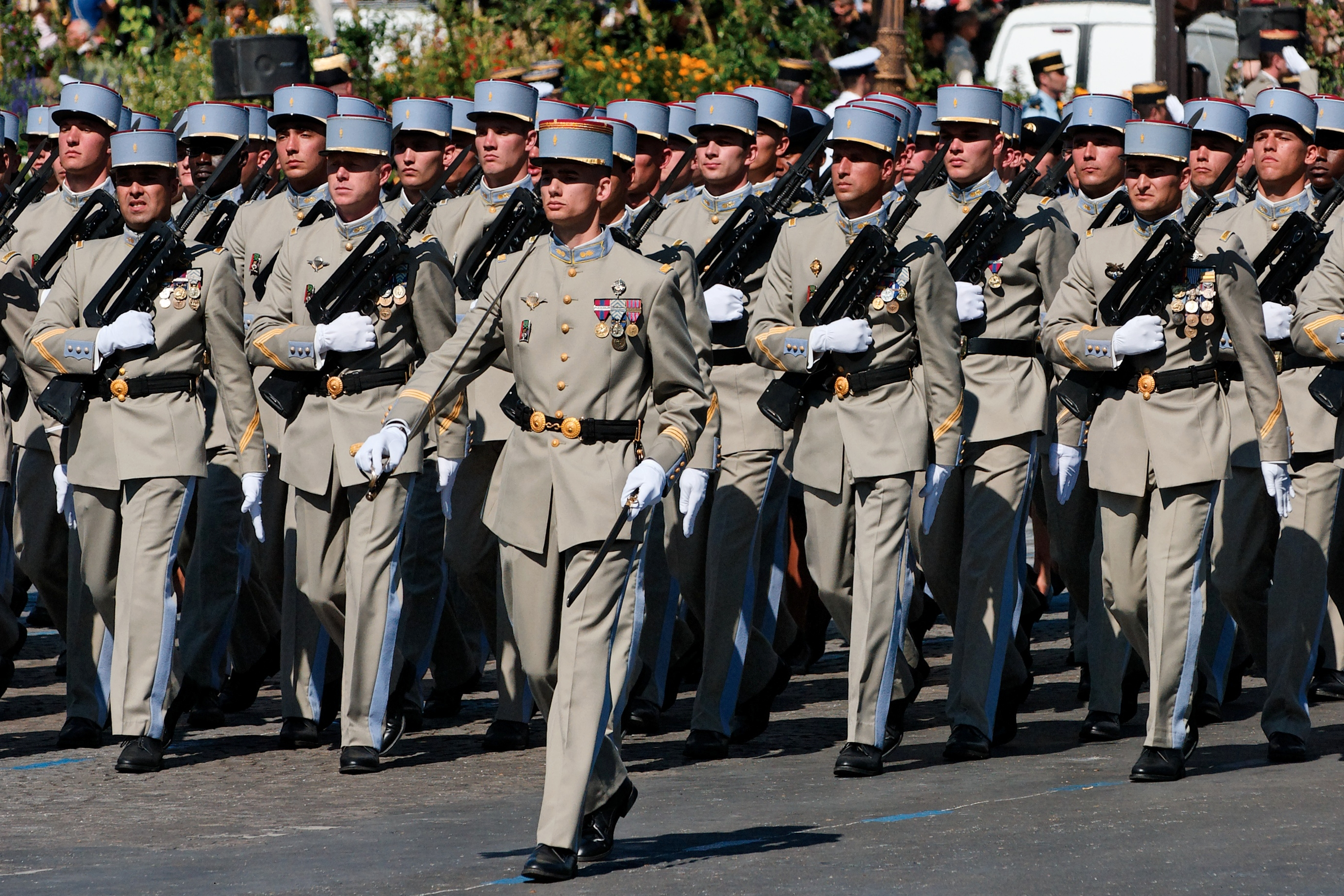 Trainees of the École nationale des sous-officiers d'active, Bastille Day 2008 military parade on the Champs-Élysées, Paris.